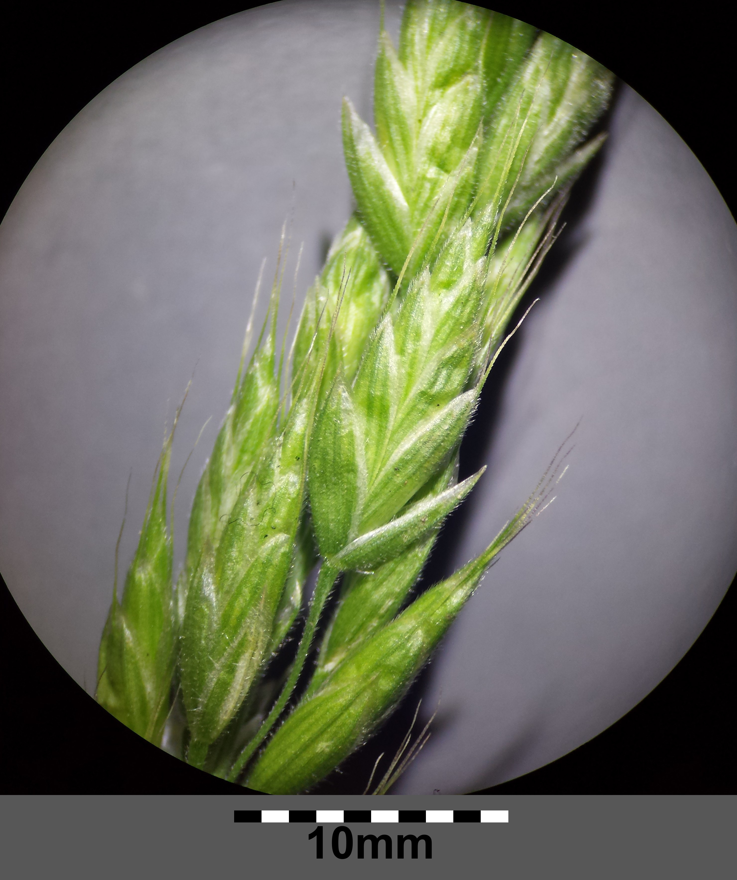 Panicle (detail) Taxonym: Bromus hordeaceus subsp. hordeaceus ss Fischer et al. EfÖLS 2008 ISBN 978-3-85474-187-9 Location: Floridsdorf rail station, Vienna-Floridsdorf - ca. 160 m a.s.l. Habitat: ruderal area